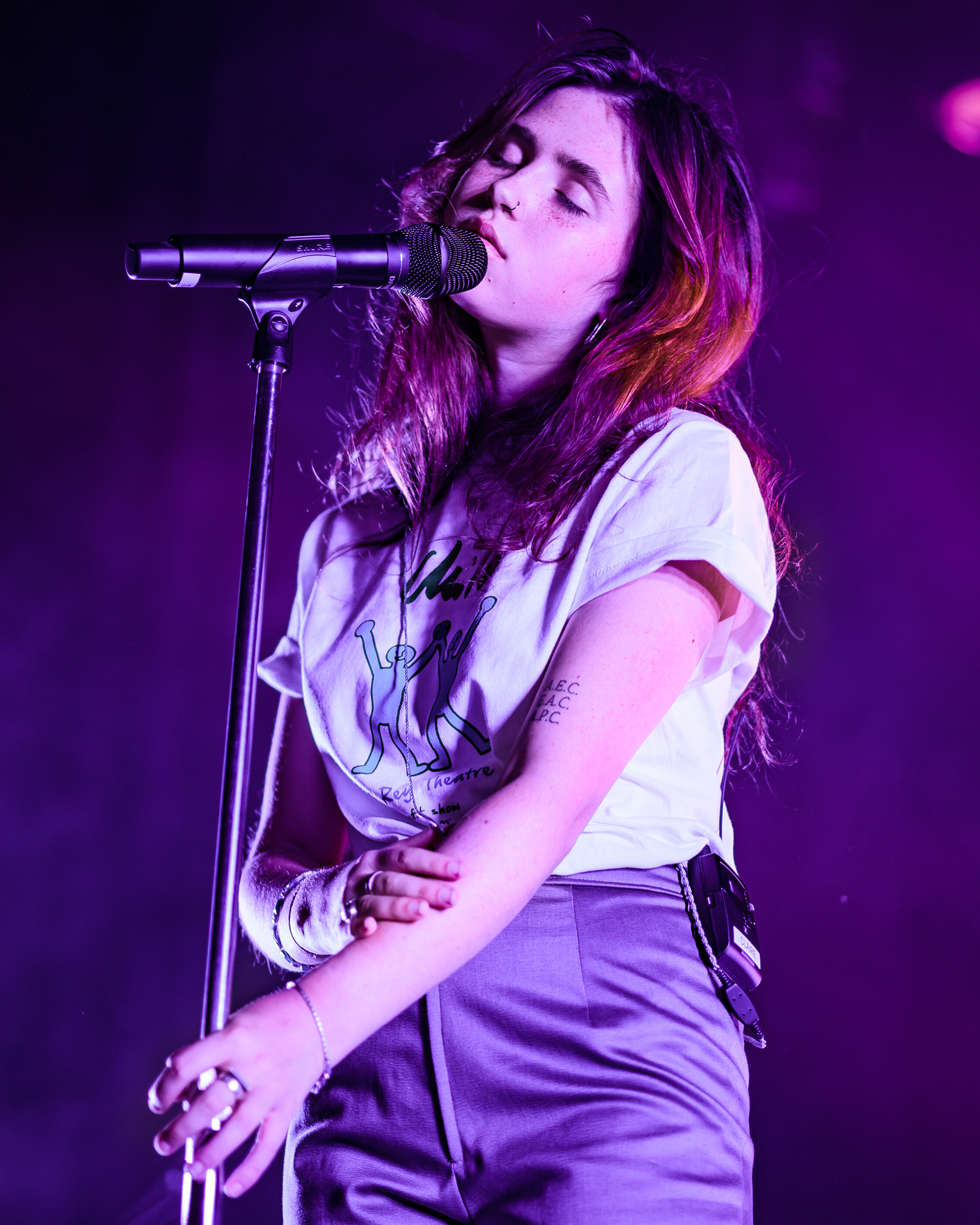 Clairo performing live at the El Rey theatre in Los Angeles, California, on Thursday, April 11, 2019. Shot for Ones To Watch.